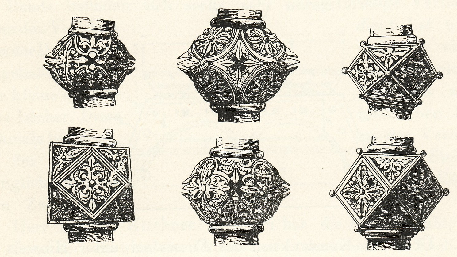 Details of the Essen Candlestick after Georg Humann